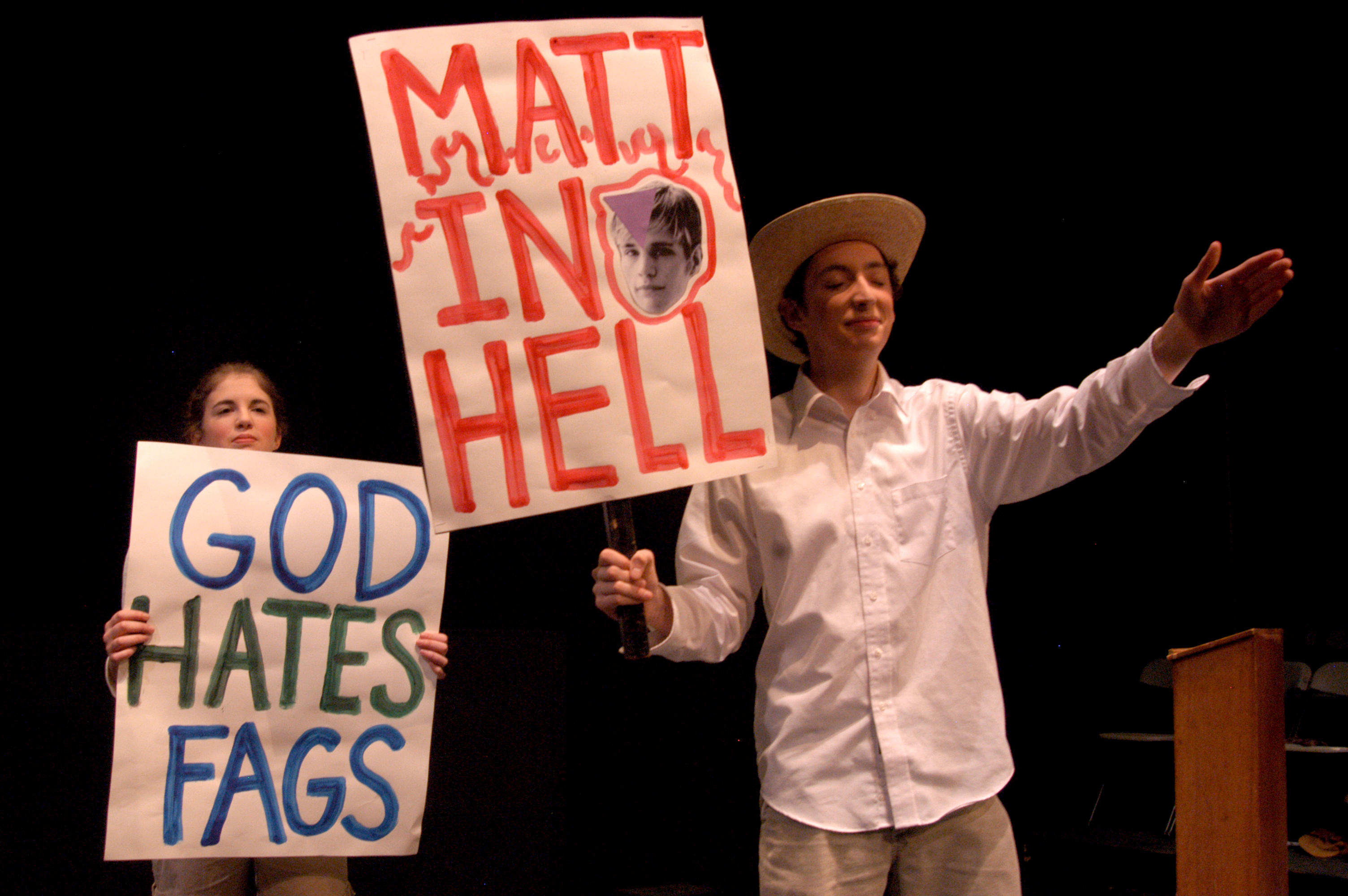 Play The Laramie Project at the Mercer Island High School, Mercer Island, Washington, USA. Two play protesters of the Westboro Baptist Church about for the death of Matthew ShepardJeff Hitchcock: "Probably the best moment of this entire production was during the cast party. Someone had brought these two signs to the party and around midnight most of the cast and crew walked down to the beach with them. We stood in a circle and lit both of the signs on fire. Then the entire group started singing Amazing Grace softly (the song was performed during the play by a character played by Aaron). It was a very powerful moment and a wonderful way to purge all of the emotions churned up by the production."